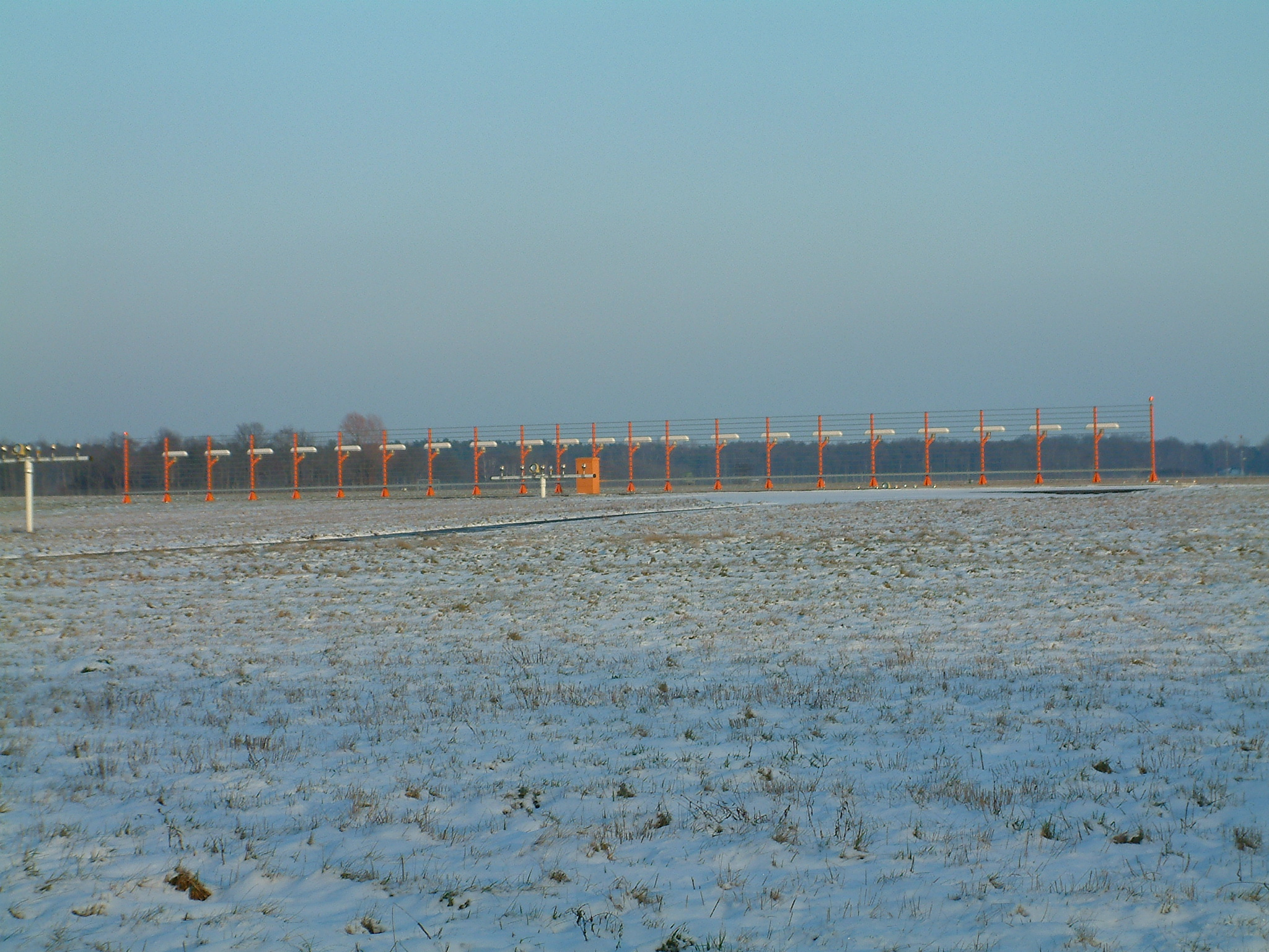 ILS Localizer 21-element dipole reflector antenna array, Runway 27R, EDDV Hanover/Langenhagen International Airport. The picture shows the back of the antenna system.